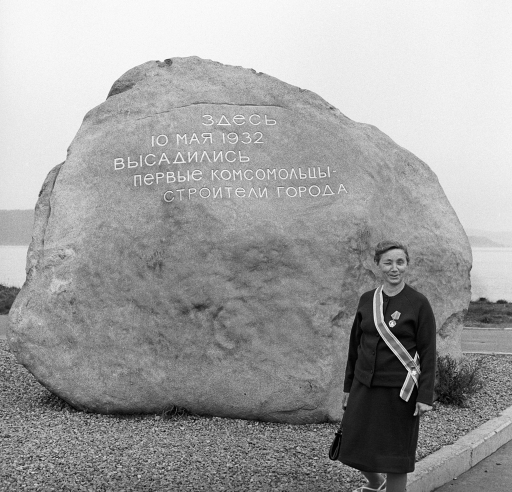 “One of the first Komsomolsk-on-Amur builders”. One of the first Komsomolsk-on-Amur builders Yevdokiya Selyutina at the memorial stone carrying an inscription 'On May 10, 1932, the first Young Komsomol League members disembarked here to build a city'.